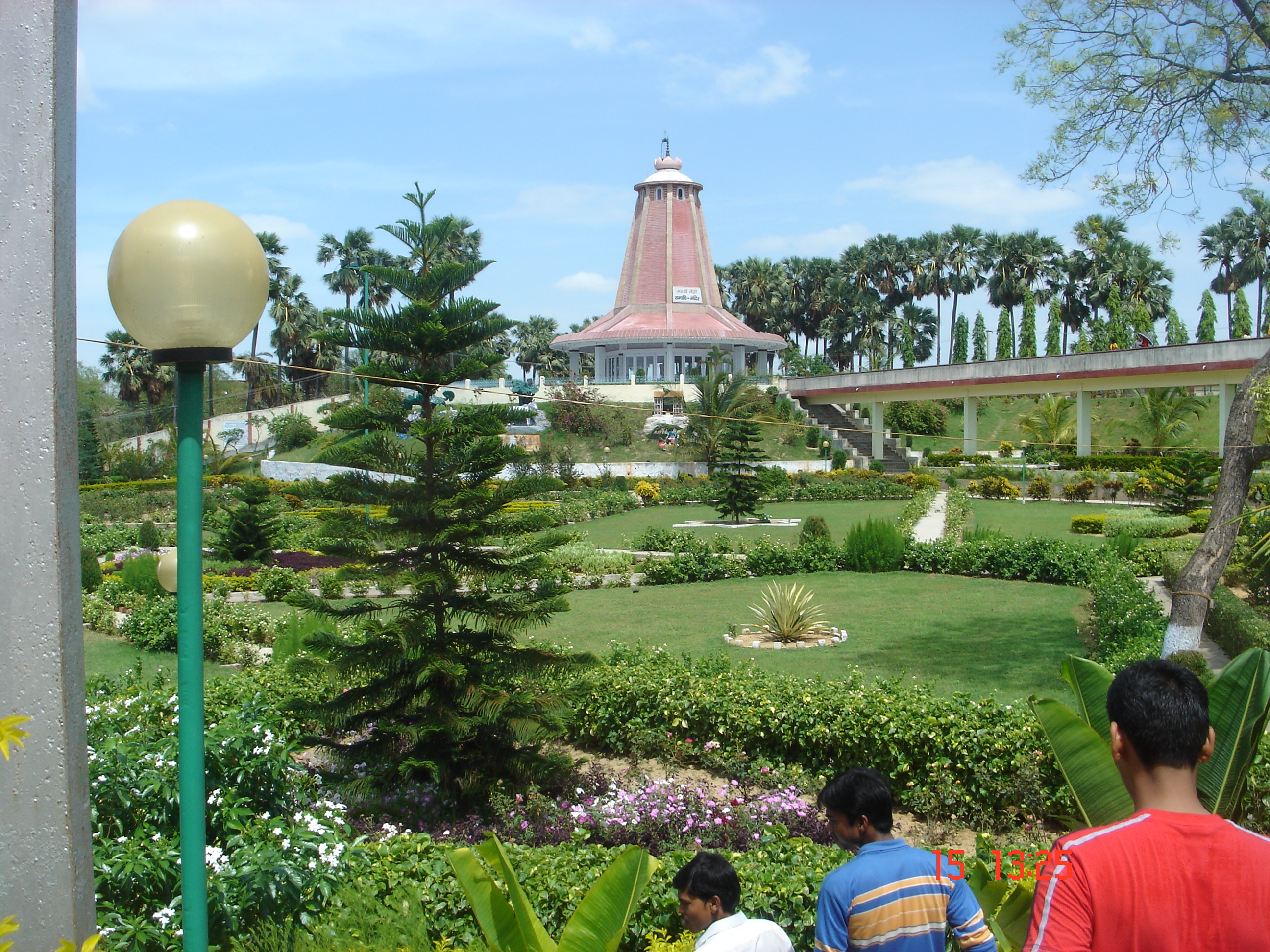 A view of the beautiful lawns with the Samadhi Temple of Maharshi Mehi Paramhans seen in the background